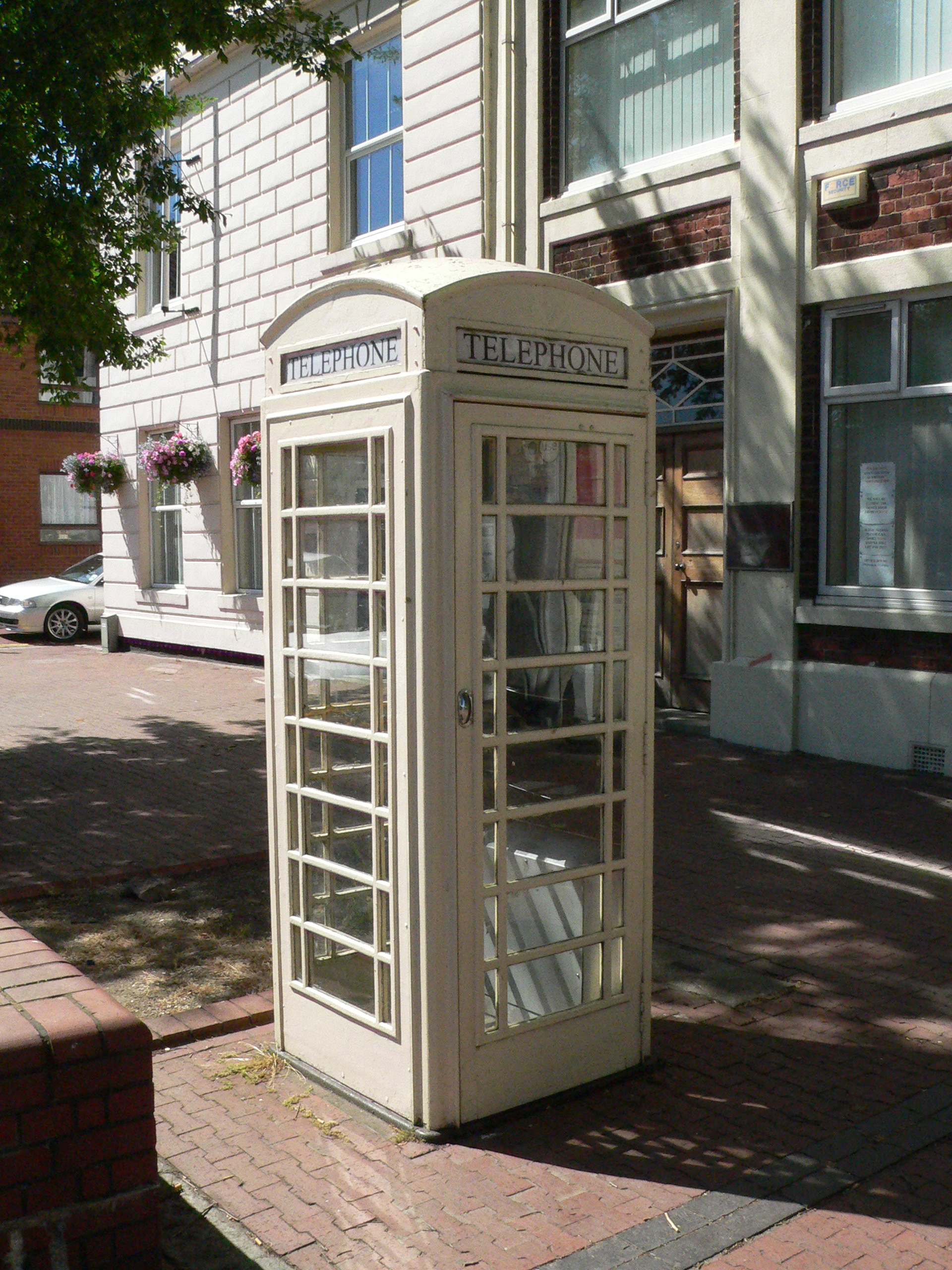 A cream K6 telephone box in Hull.